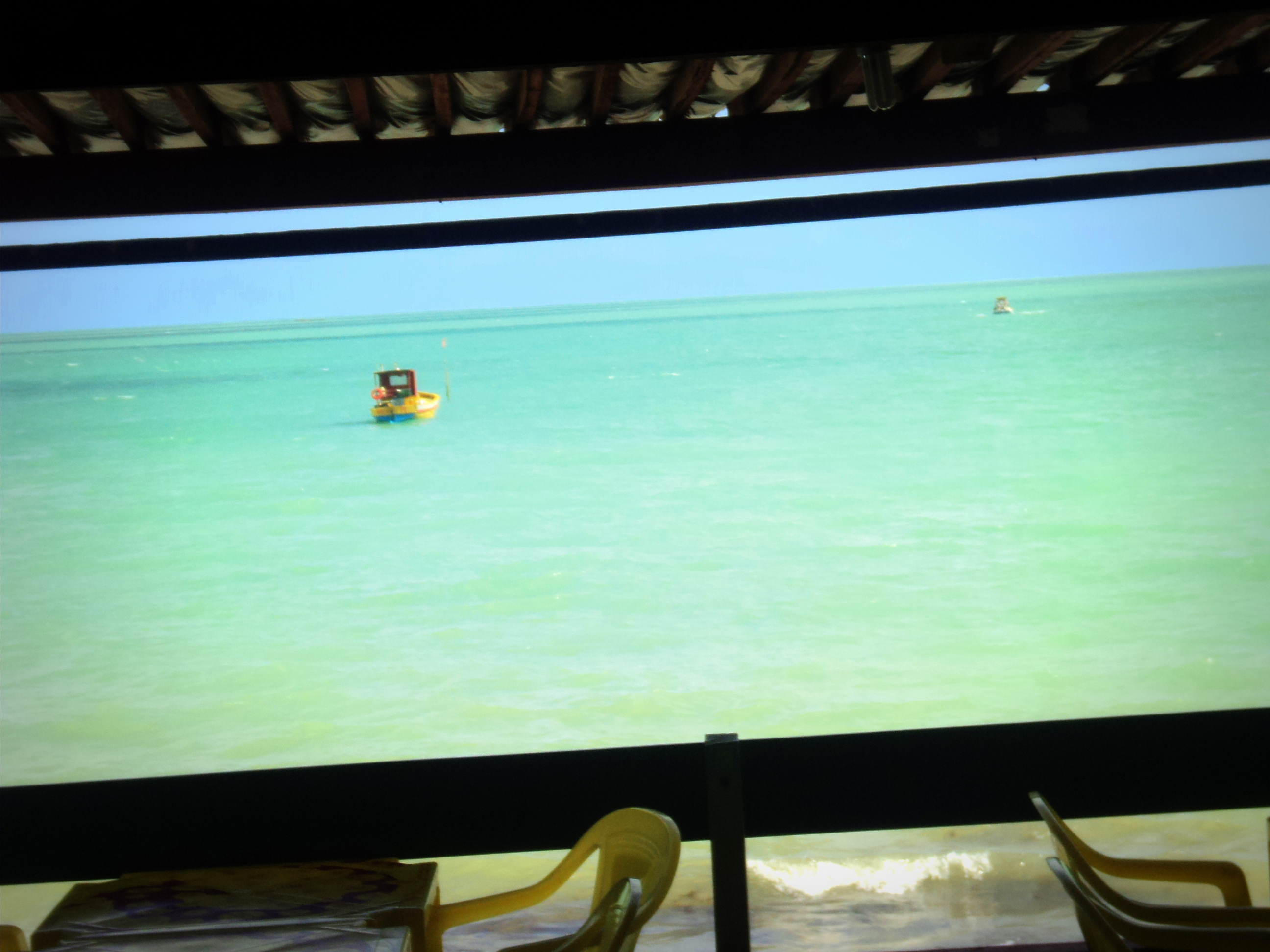 Pontas de Pedras Beach